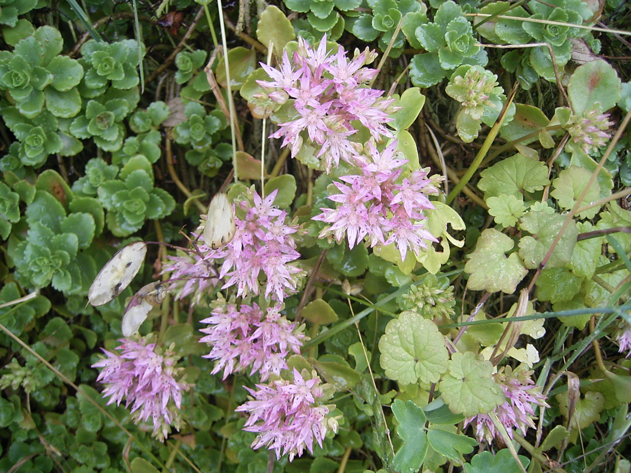 This photo shows Sedum spurium. I took this photo near Hardenberg, Netherlands.